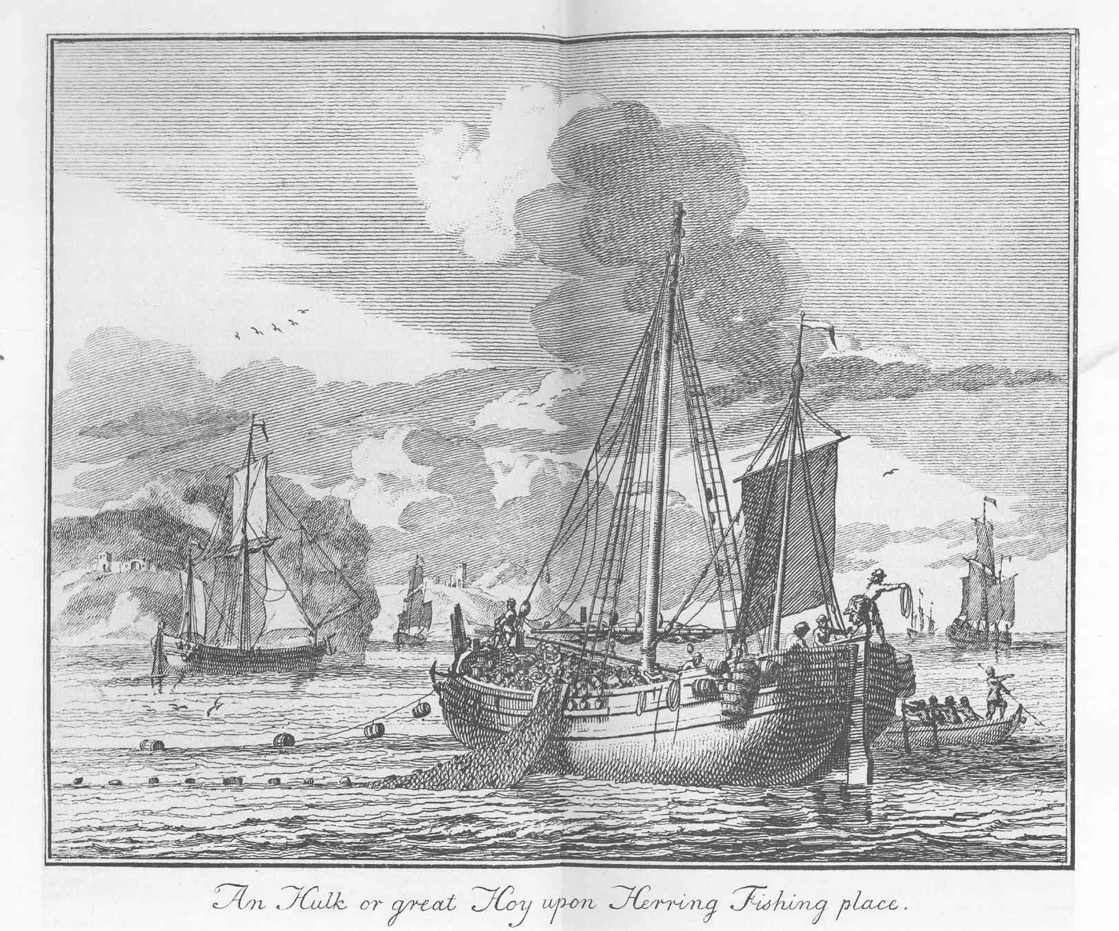 Hulk or Great Hoy upon Herring Fishing place Subject: Fishing boats, Sailing ships Tag: Vessels